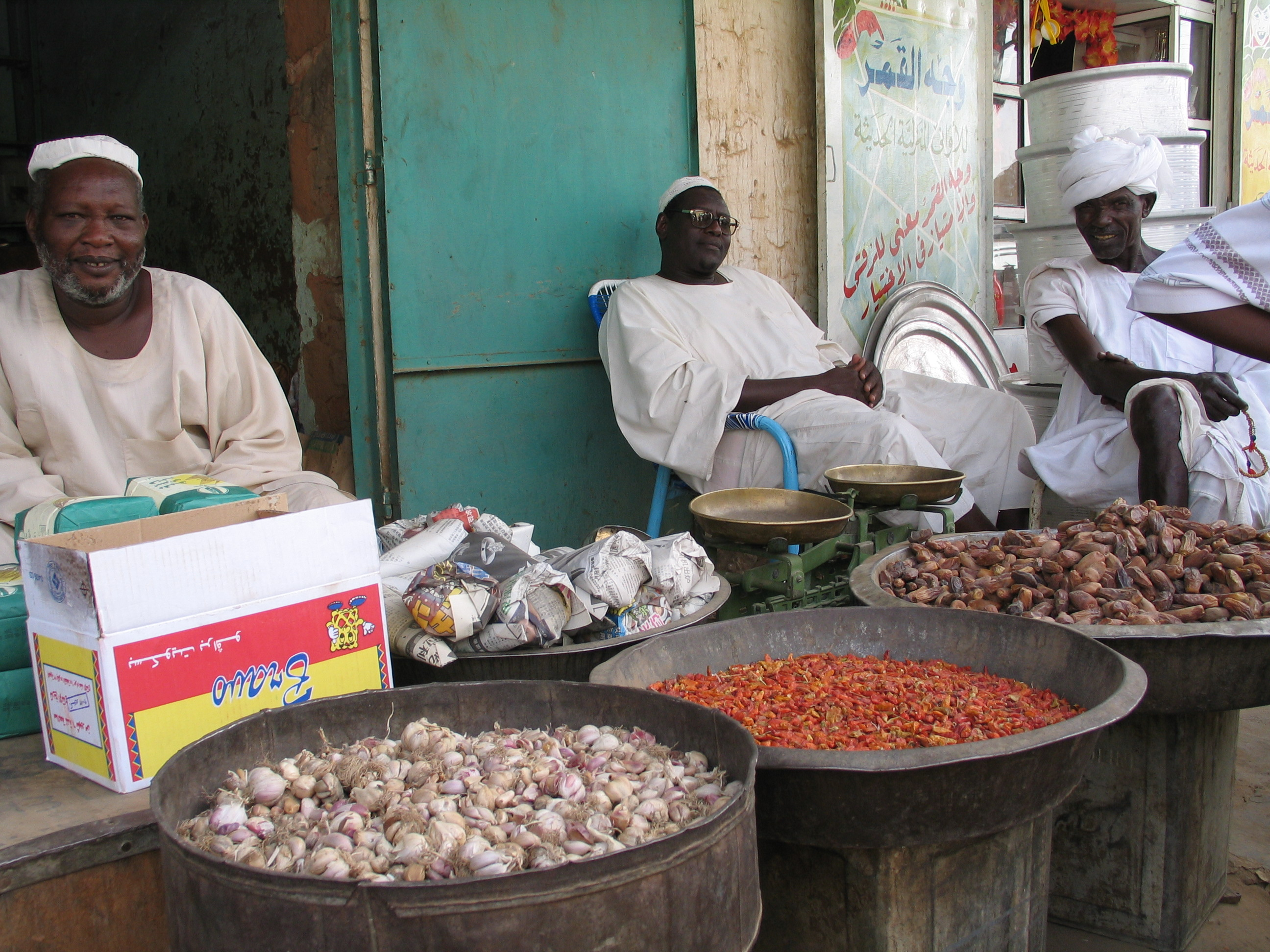 Original caption states, "Sudan: Market Vendors - USAID has provided agircultural programs, and micro-loan programs to improve crop production/income growth for small farmers. ."